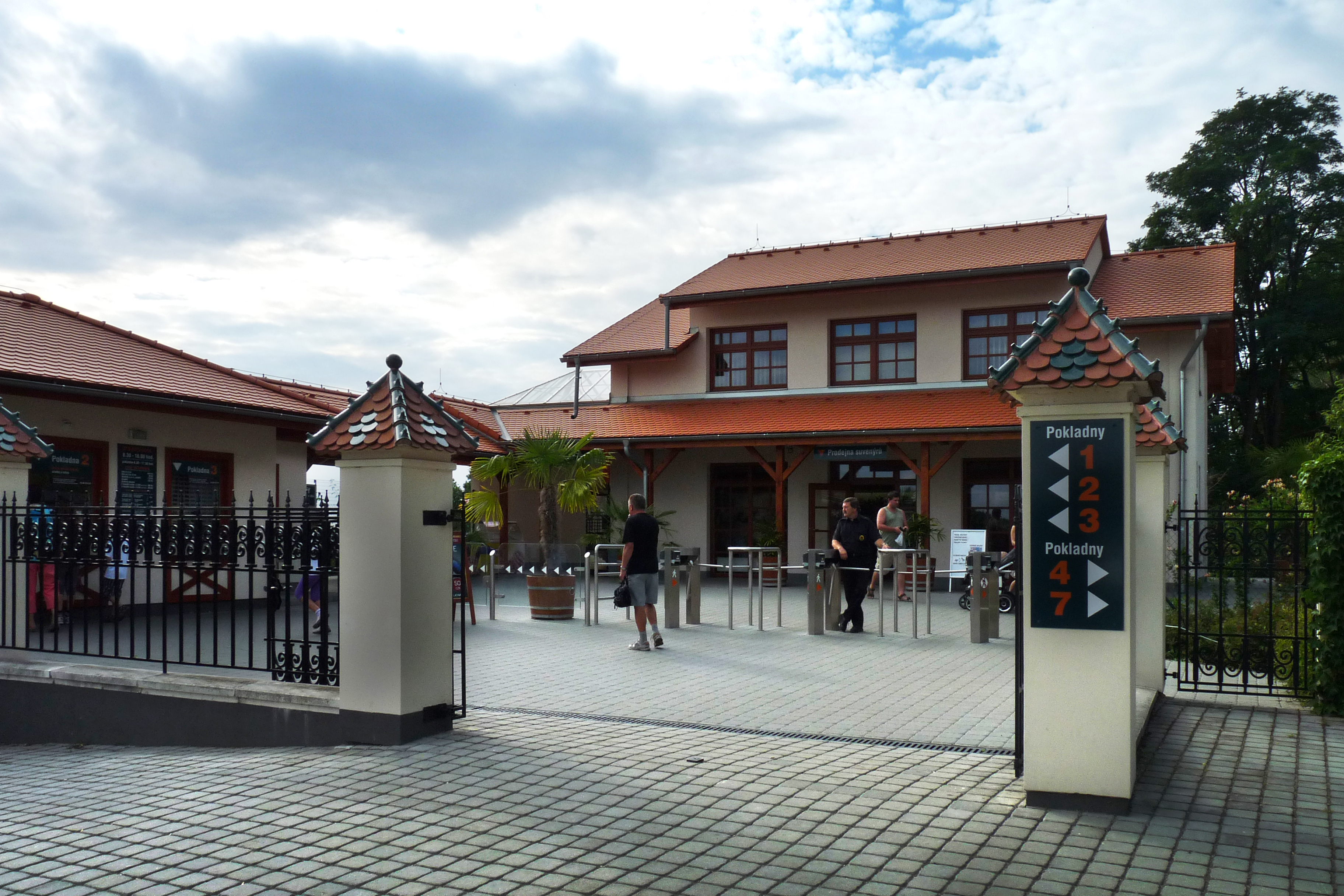 Zoo Zlín near the town of Zlín, Zlín Region, Czech Republic, main entrance.